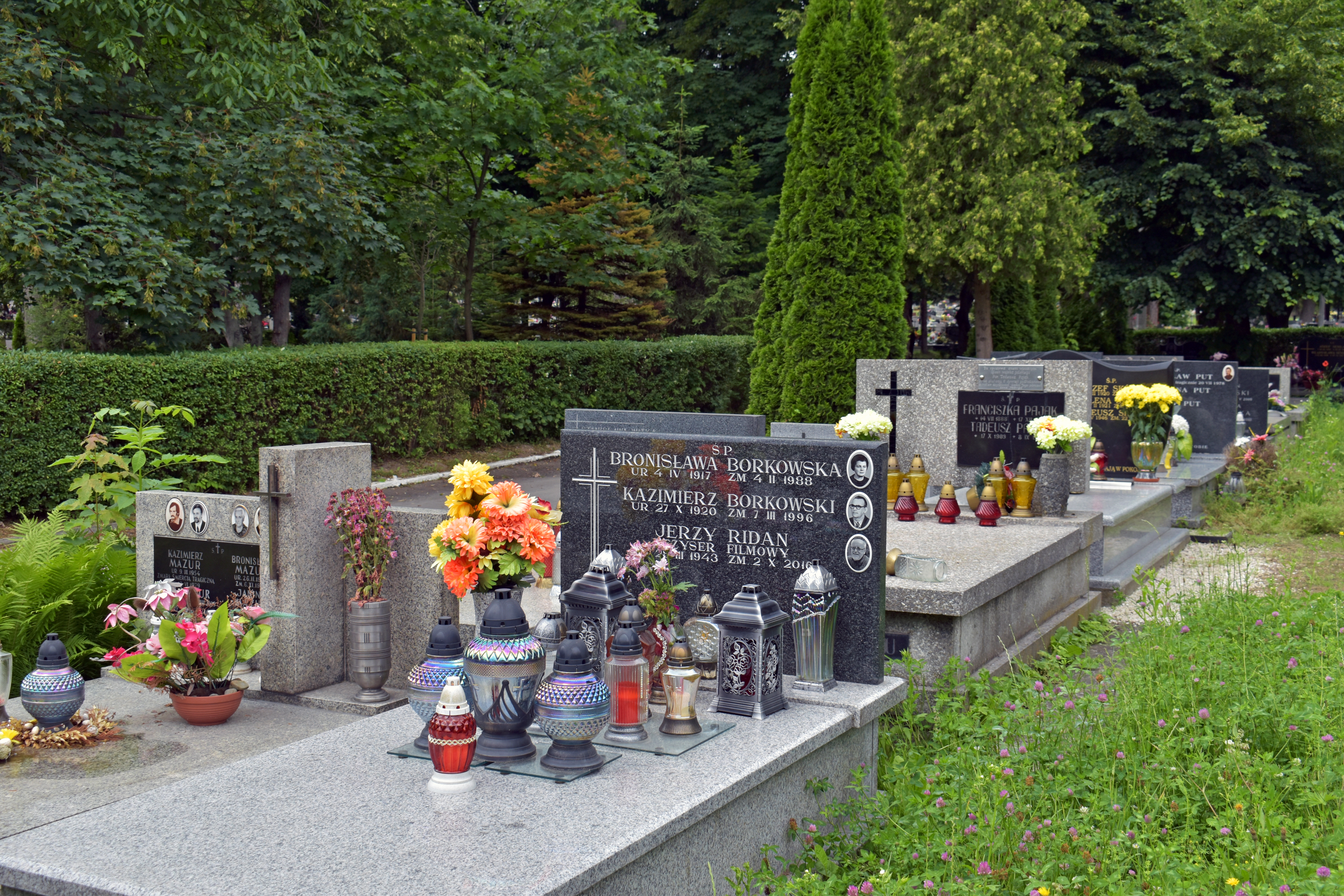 Grave of Jerzy Ridan (Polish film director), Grębałowski Cemetery, 1 Darwin street, Nowa Huta, Kraków, Poland